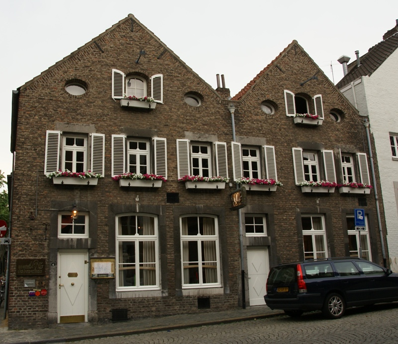 National monument no. 26960 - Ezelmarkt 4, Maastricht, The Netherlands